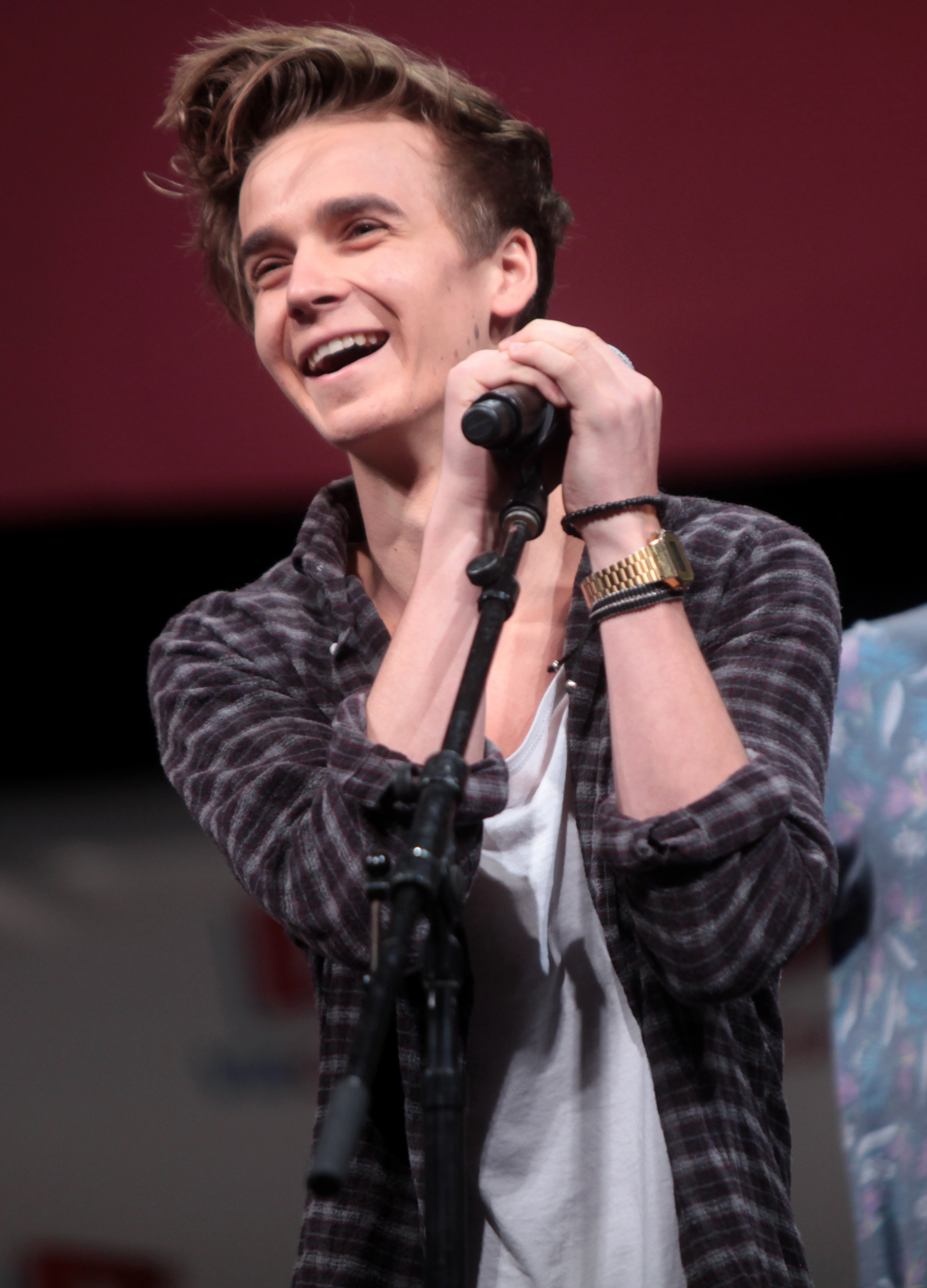 Joe Sugg speaking at the 2014 VidCon on June 28, 2014.